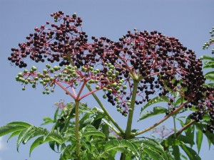 Photograph showing the fruiting/berry portion of an Elderberry(Sambucus) plant.